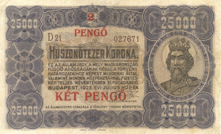 25 000 Hungarian korona (1923) by Orell Füssli with "2 pengő" overstamp - obverse